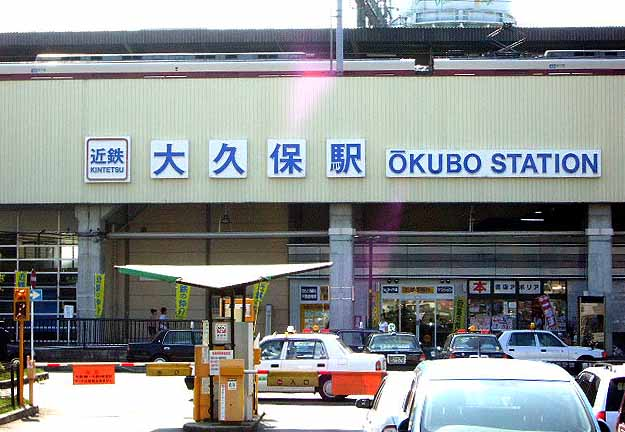 This photo is the east side of Okubo station ,Kinki-Nippon Rail Road (KINTETSU), Uji City, Kyoto Pref. This side has taxi platform and municipal parking lot.